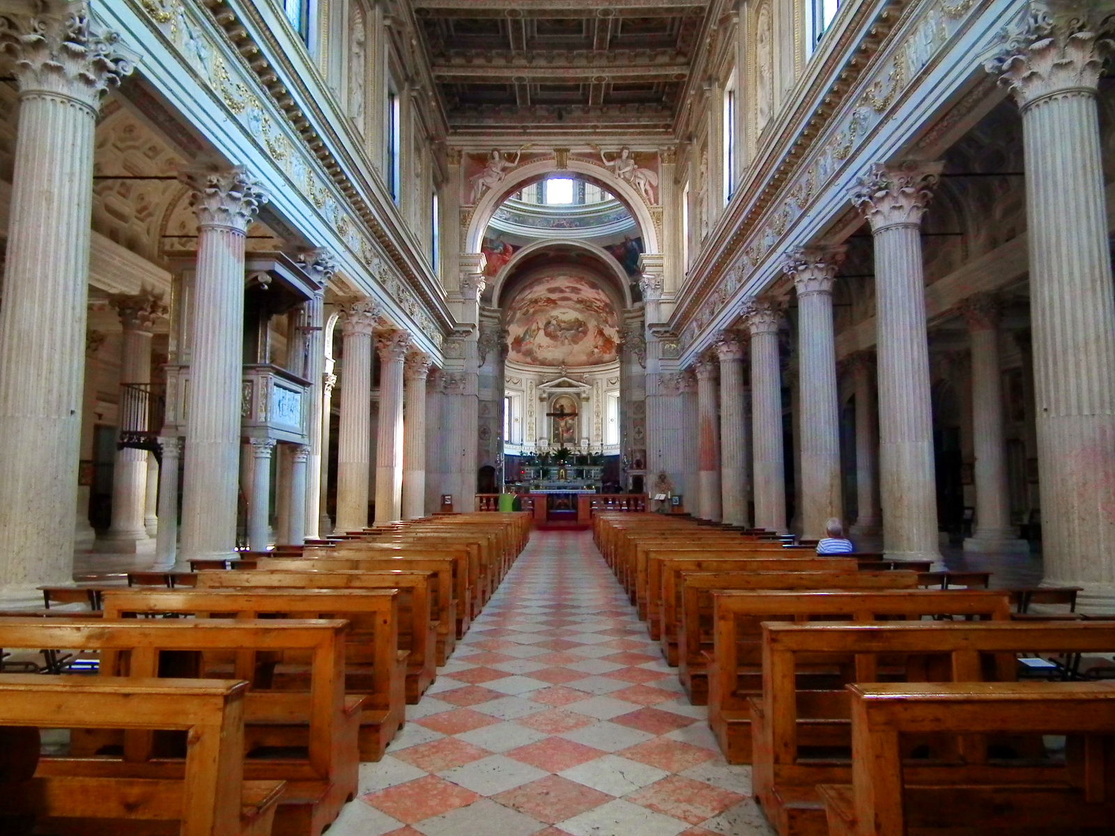 Mantua Cathedral Native nameDuomo di MantovaLocationMantua, Lombardy, ItalyCoordinates45° 09′ 38.1″ N, 10° 47′ 50.65″ E